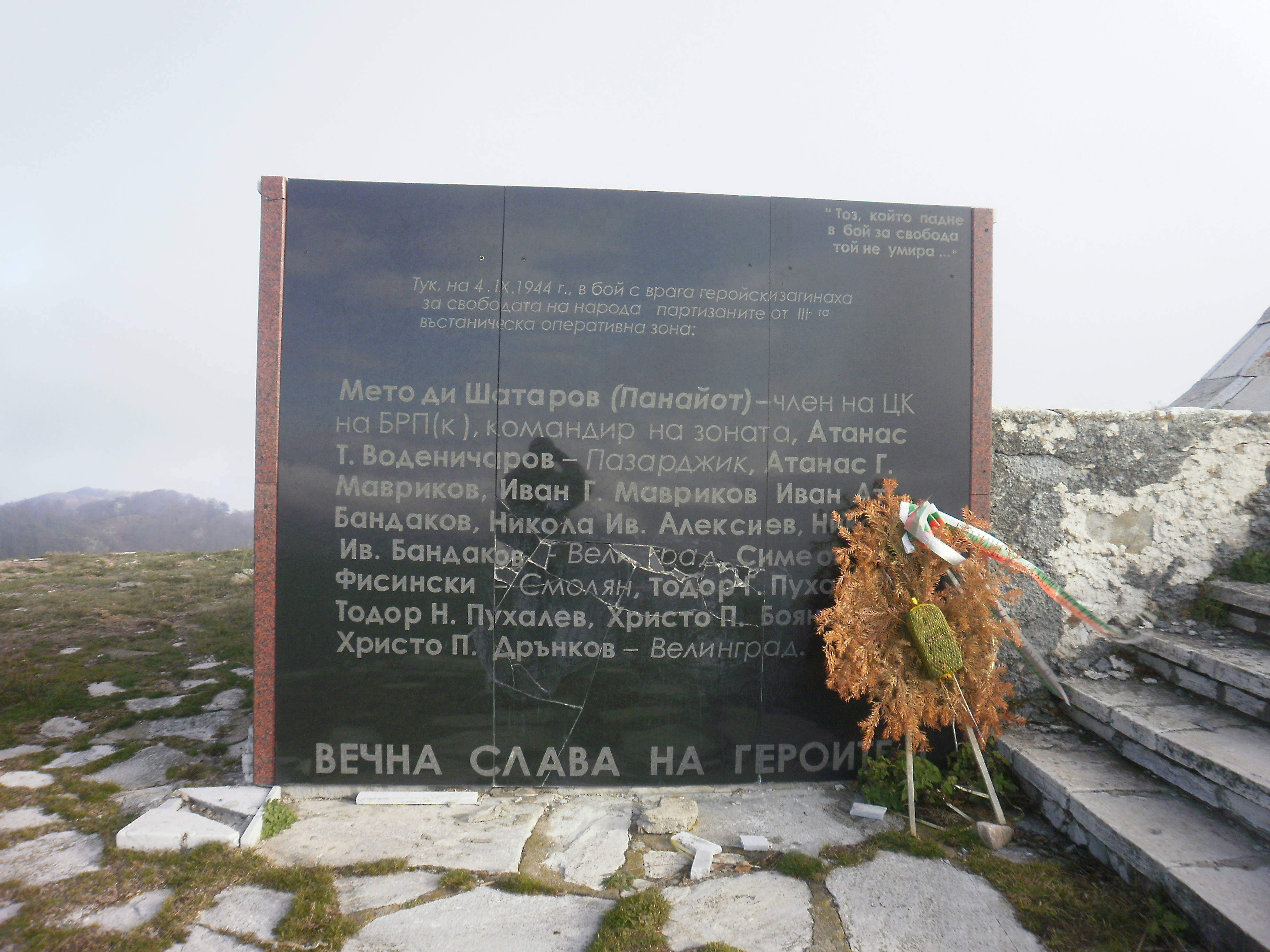 Milevi skali Peak, Rhodope Mountains, Bulgaria.